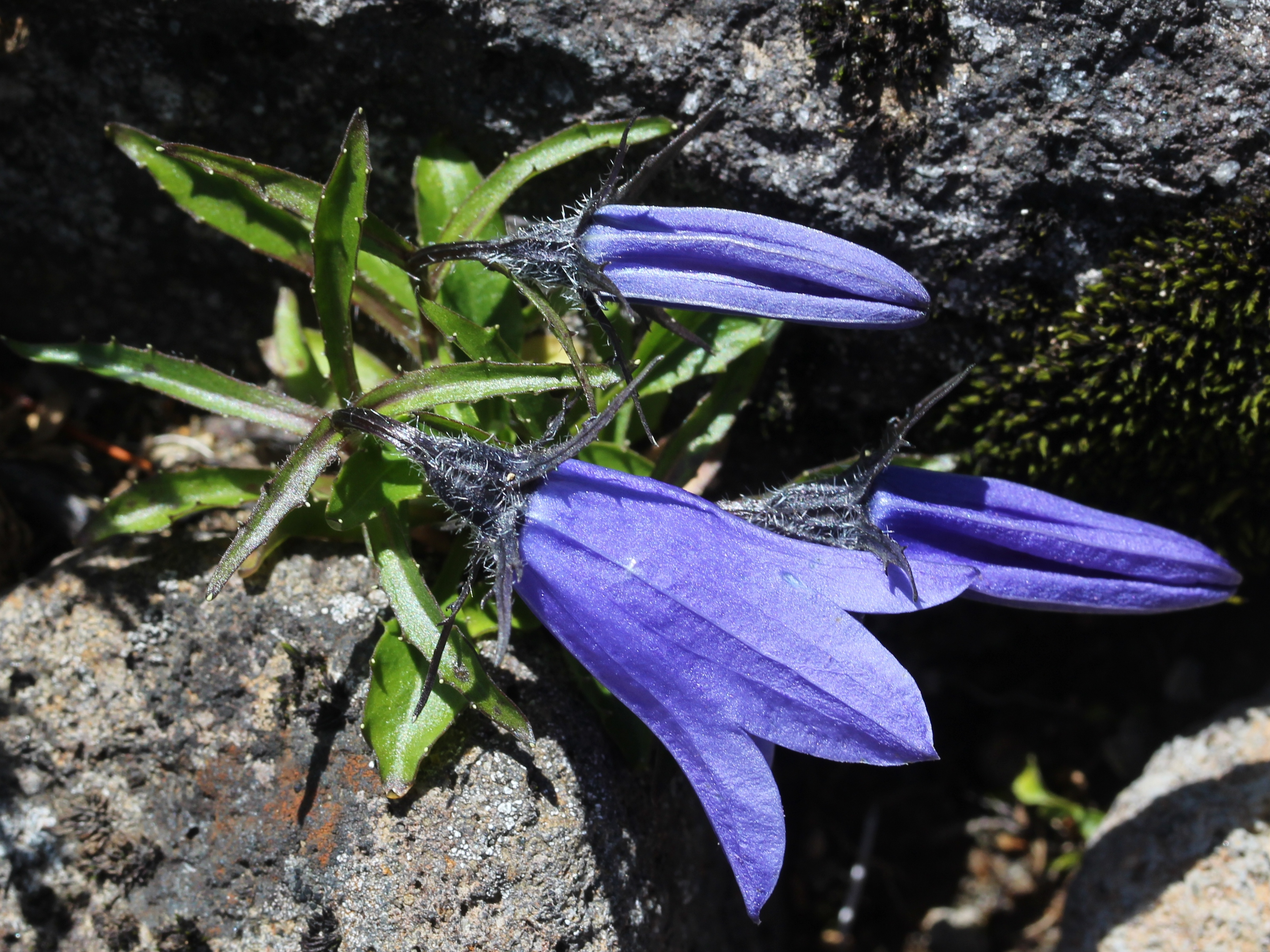 Campanula lasiocarpa, in Mount Ontake, Nagano prefecture, Japan.